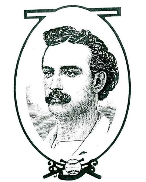 Lip Pike (19th century baseball player)